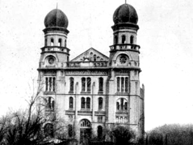 Synagogue of ratibor seen from the front (west)